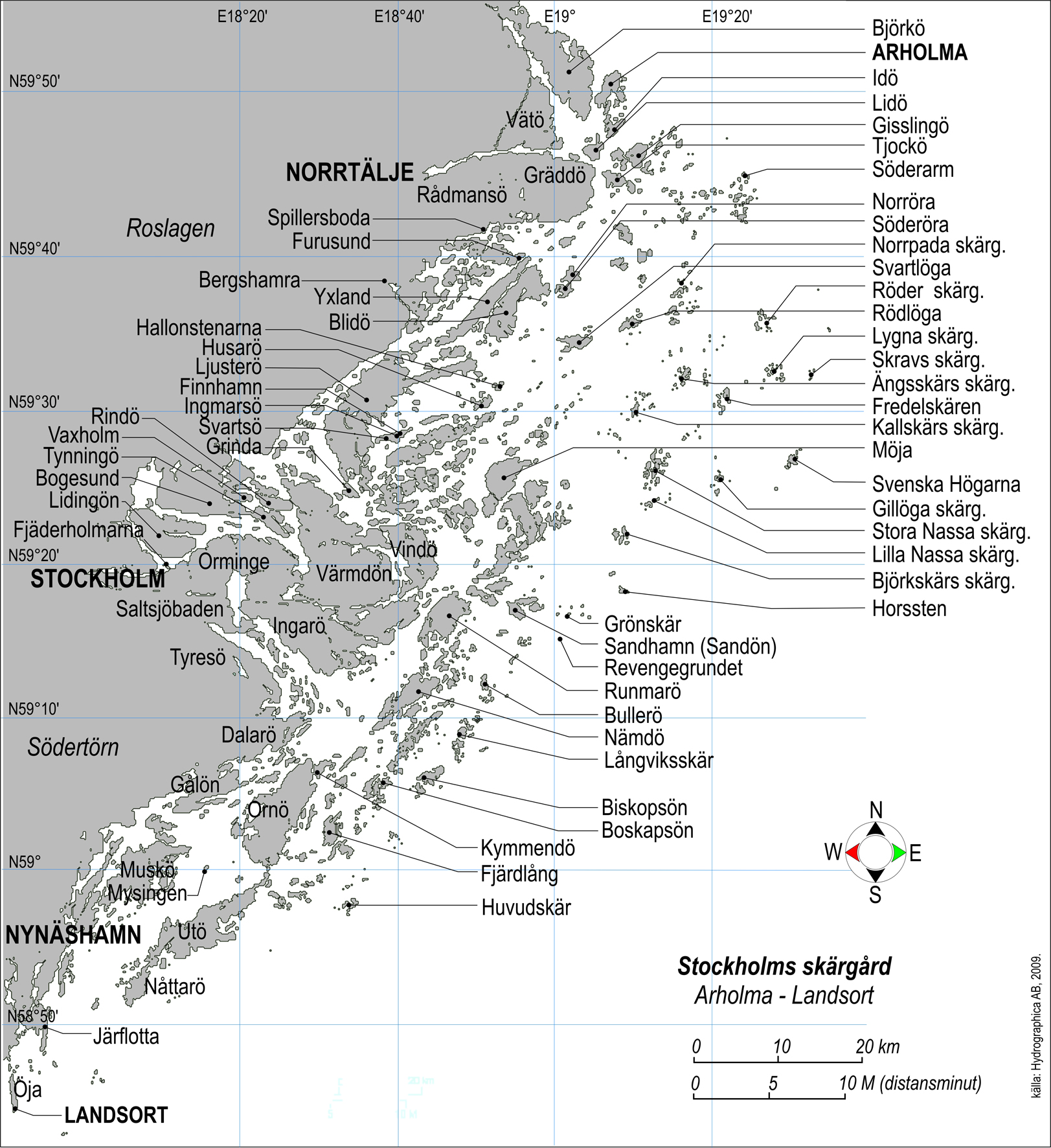 Map covering Stockholm archipelago from Arholma (north) to Landsort (south).